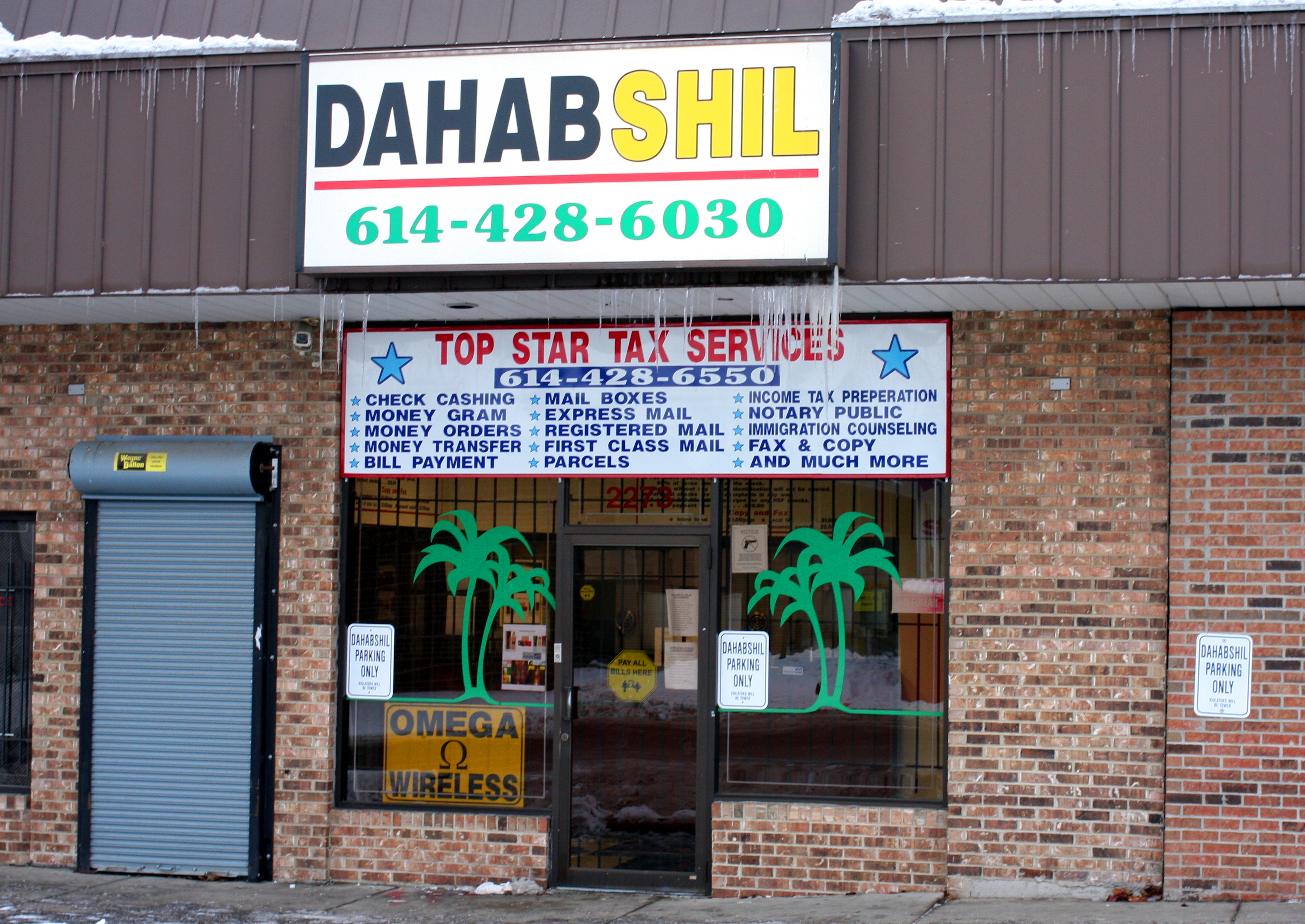 A franchise outlet of the Somali-owned money transfer company, Dahabshiil, on Morse Road in Columbus, Ohio.